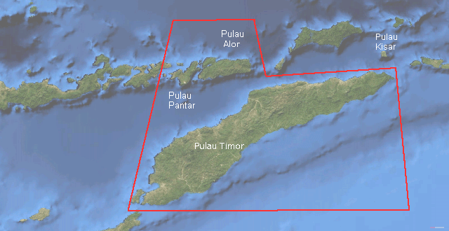 Timor, Alor and Pantar Island